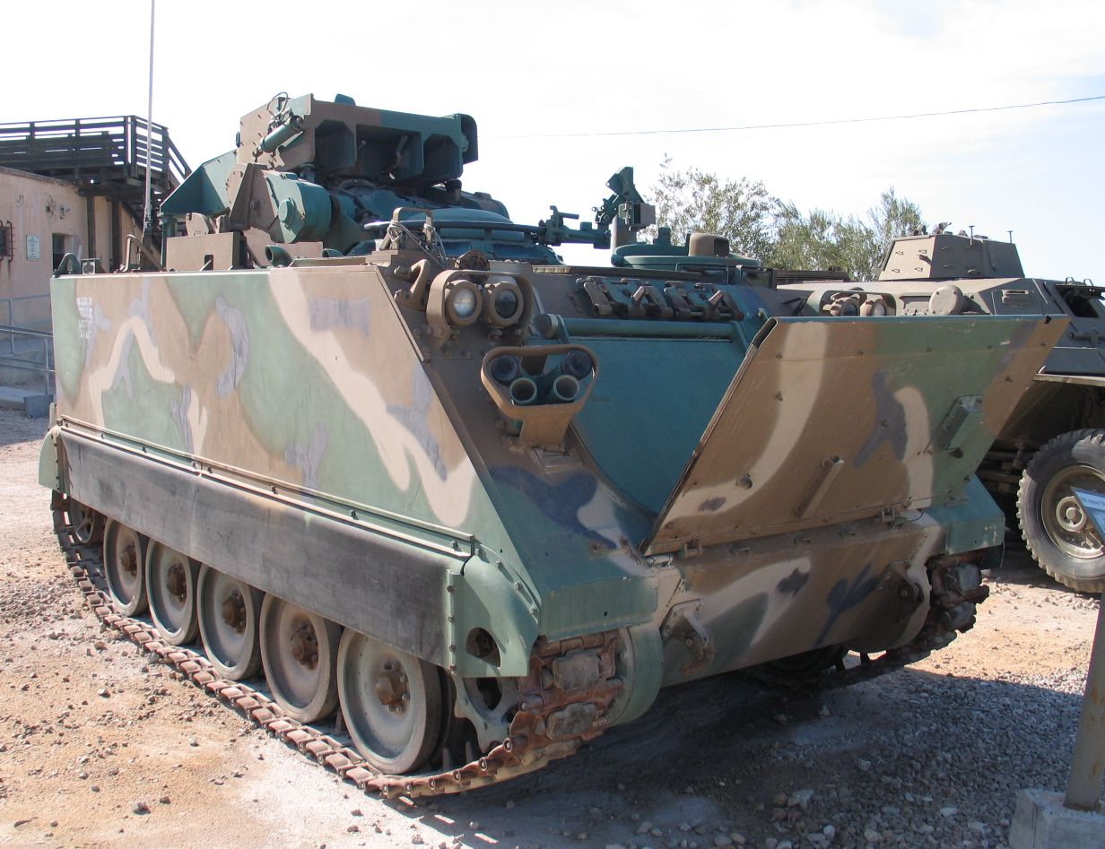 Description: M901 Improved TOW Vehicle in Yad la-Shiryon Museum, Israel. 2005. Source: Photo by me, User:Bukvoed.